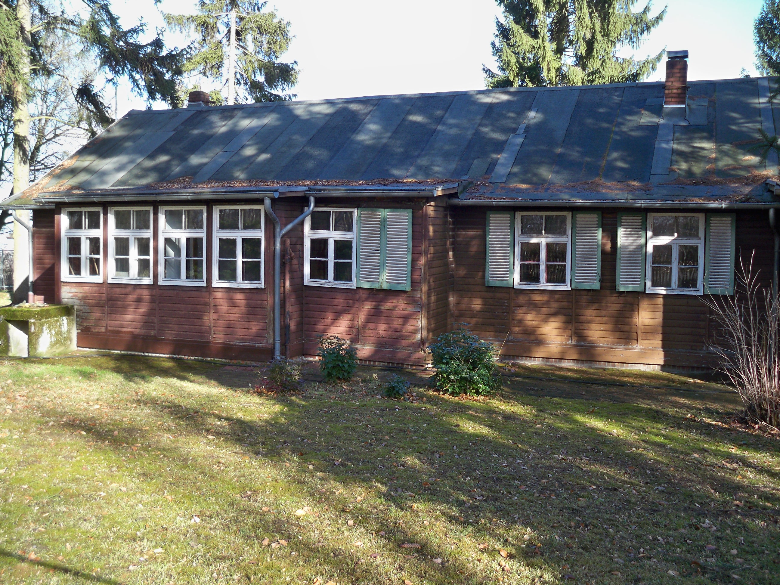 Wolfsburg, Lower Saxony, Klieversberg, Porschehuette (former engineering office of Ferdinand Porsche)